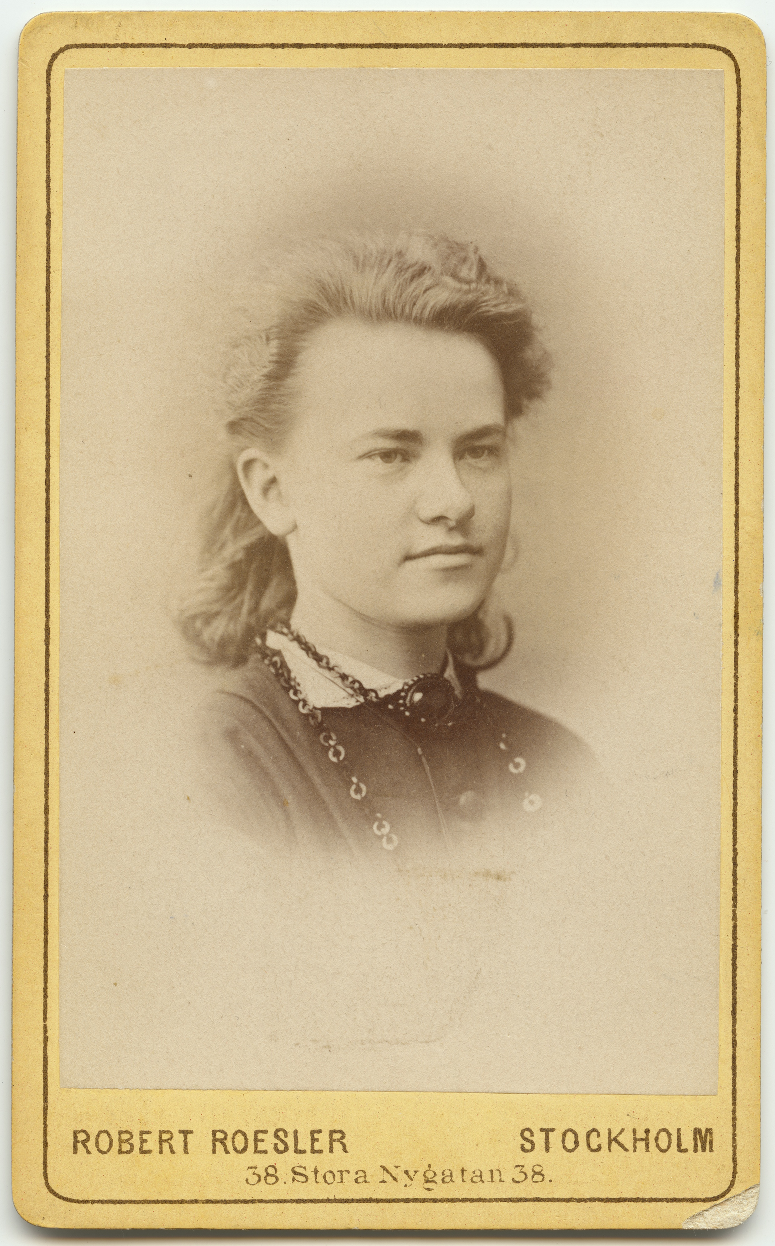 Photograph of the Finnish painter Ellen Favorin